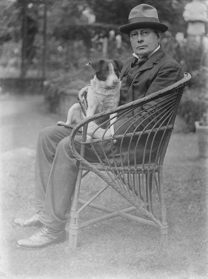 Sir George James Frampton, RA (18 June 1860 – 21 May 1928) in 1915